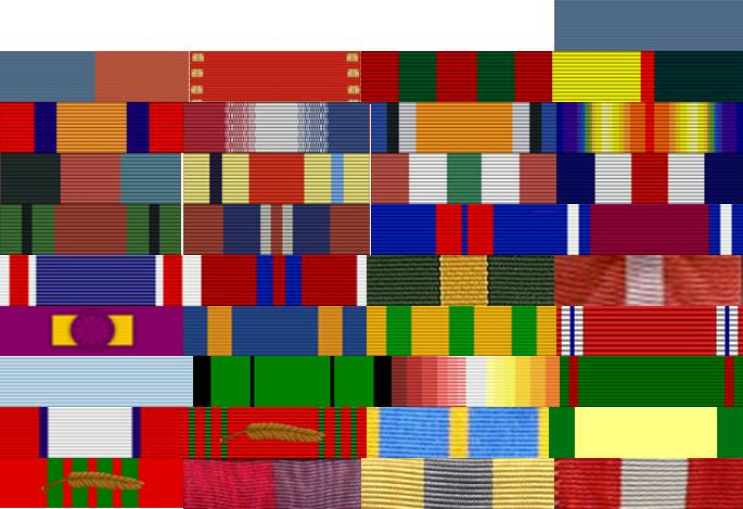 Winston Churchill's ribbon rack as it would have appeared if he had worn all thirty-seven of his civil and military awards. A complete list of the corresponding awards, in order of precedence, can be found at